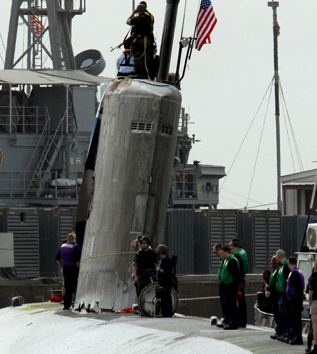 090321-N-9909C-993 BAHRAIN - The Los Angeles-class attack submarine USS Hartford (SSN 768) arrives pier side at Mina Salman pier in Bahrain where U.S. Navy engineers and inspection teams will asses and evaluate damage that resulted from a collision with the amphibious transport dock ship USS New Orleans (LPD 18) in the Strait of Hormuz March 20. Overall damage to both ships is being evaluated. The incident remains under investigation. Hartford is deployed to the U.S. 5th fleet area of responsibility to support maritime security operations.